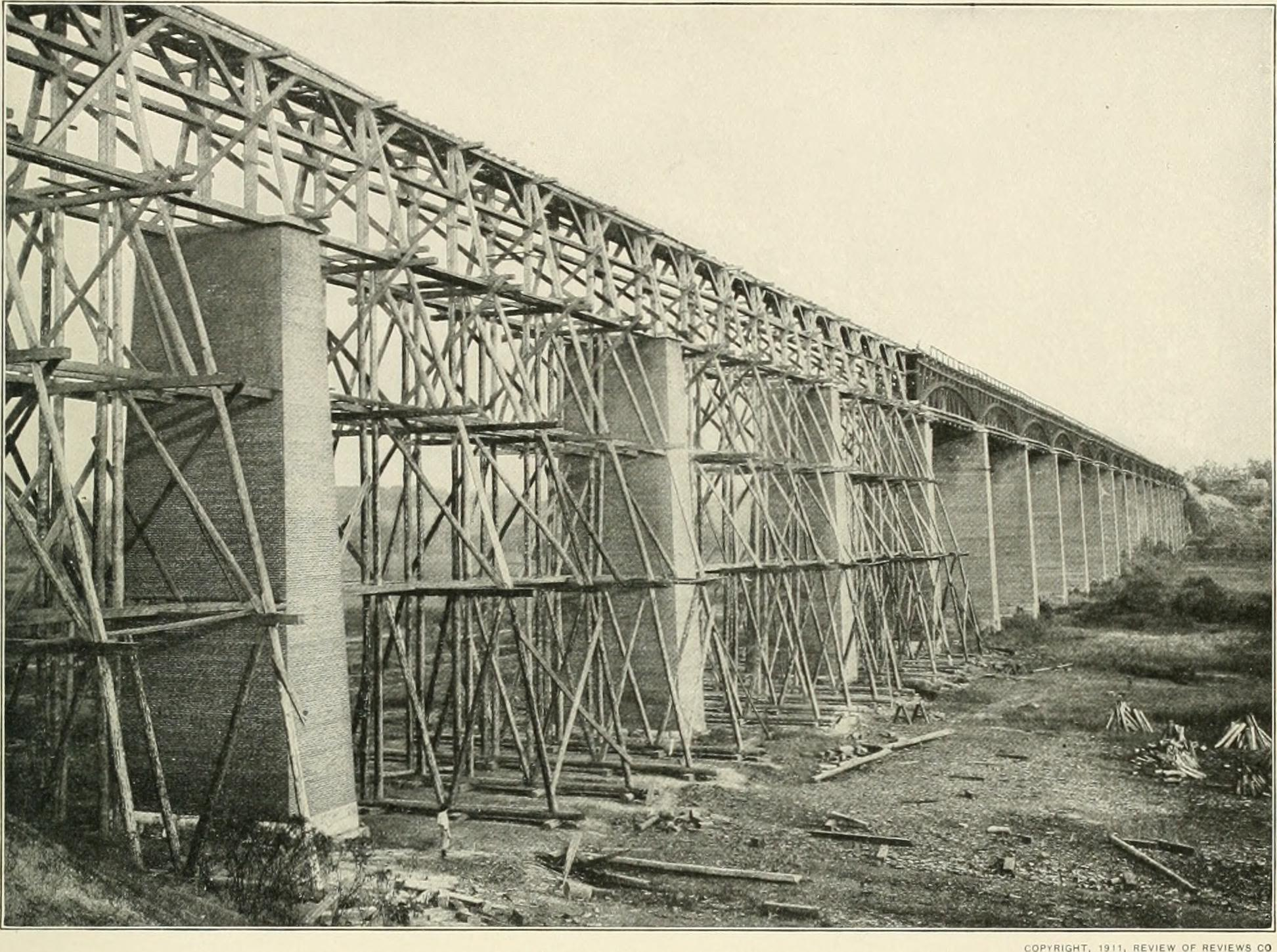 Title: The photographic history of the Civil War : thousands of scenes photographed 1861-65, with text by many special authorities Year: 1911 (1910s) Authors: Miller, Francis Trevelyan, 1877-1959 Lanier, Robert S. (Robert Sampson), 1880- Subjects: United States -- History Civil War, 1861-1865 Pictorial works United States -- History Civil War, 1861-1865 Publisher: New York : Review of Reviews Co. Text Appearing Before Image: ' Text Appearing After Image: THE LAiNOMARK OF THE CONFEDERATES LAST STAND The Union army, after the fall of Petersburg, followed the streaming Confederates, retreating westward, and came upon a part ofGordons troops near High Bridge over the Appomattox, where the South Side Railroad crosses the river on piers 60 feet high, Han-cooks (Second) Corps arrived on the south bank just after tlie Confederates had blown up the redoubt that formed the bridge head,and set fire to the bridge itself. The bridge was saved with the loss of four spans at the noith end, by Colonel Livermore, whose partyput out the-fire while Confederate skirmishers were fighting under their feet. A wagon bridge beside it was saved by the men of Bar-lows division. Mahones division of the Confederate army was drawn up on a hill, north of the river behind redoubts, but whenUnion troops appeared in force the Confederates again retreated westward along tlie river.